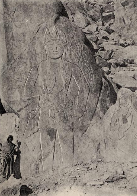 Sculptures at Sheh, image of Maitreya, raised probably by King Imagon, about 975 AD. Image from A History of Western Tibet: One of the Unknown Empires by Rev. A. H. Francke.[1] Deeg 1999, p. 167 note 76[2] identifies the right drawing with Mahākāśyapa, the disciple who, according to legends, gave Gautama Buddha's robe to Maitreya Buddha.